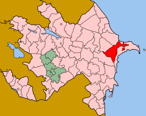 Map of Azerbaijan showing Absheron (Abşeron) rayon.